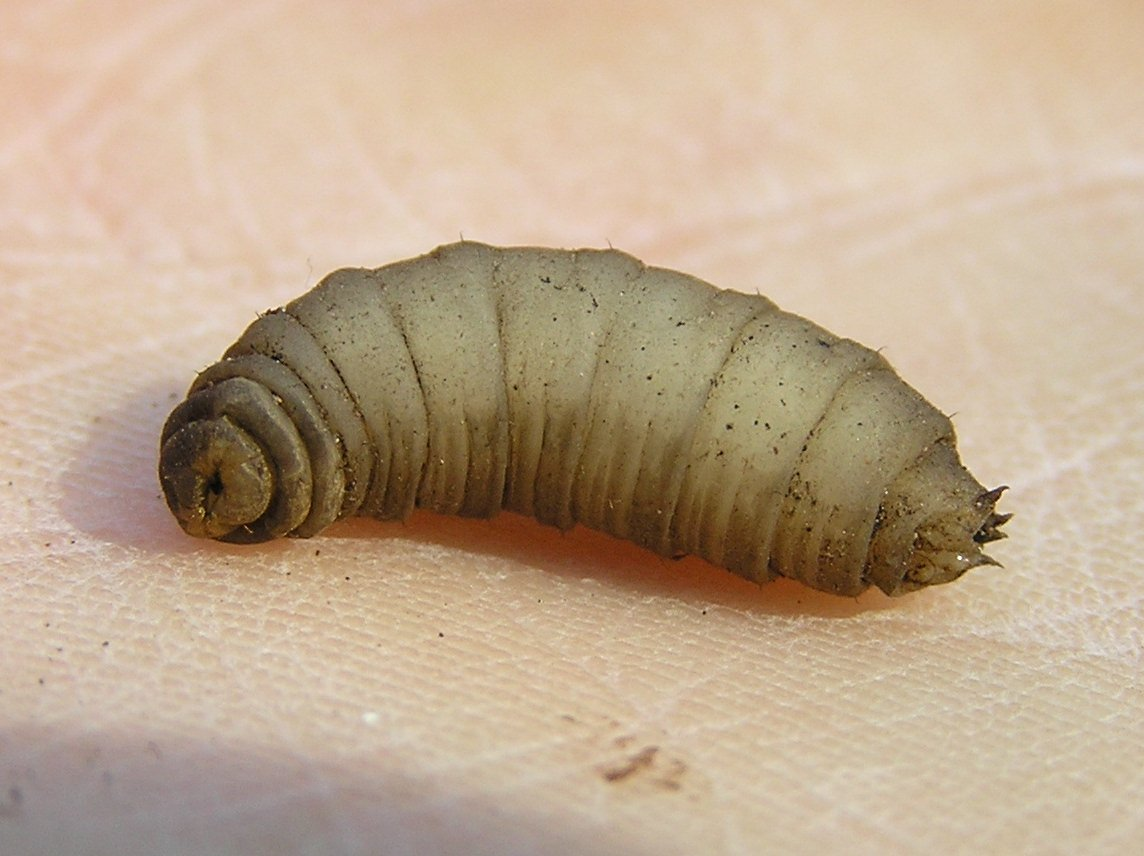 Category:Tipulidae, Białowieża forest, Poland